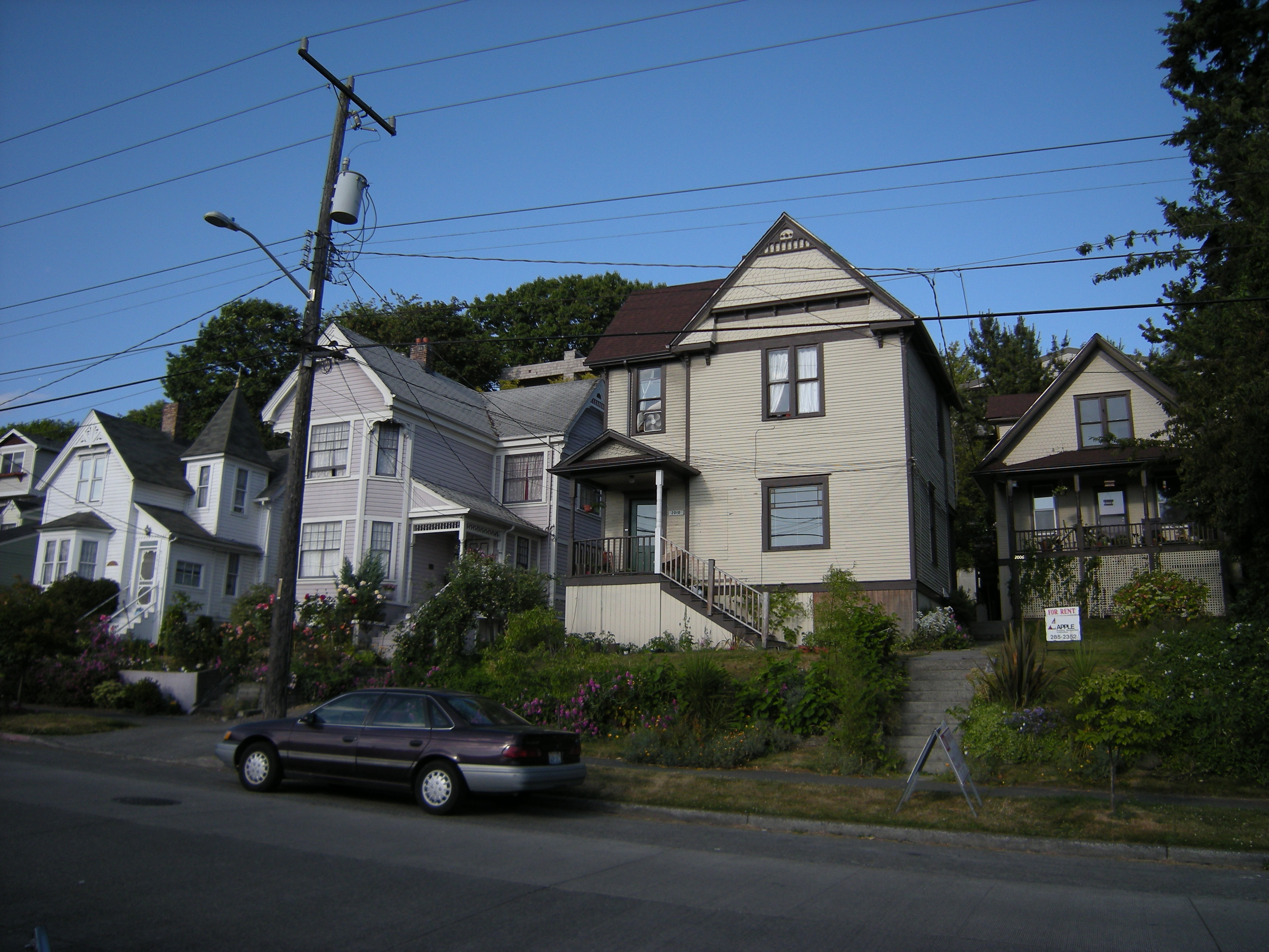 2006-2016 14th Ave W, Interbay / West Queen Anne Hill, Seattle, Washington. This shows all but the southernmost of a group of houses known as the Fourteenth Avenue West Group that have city landmark status. At the time these houses were built in the late 19th century, they were near the shore of Smith Cove, part of Elliott Bay. Since that time, landfill has left them a good distance from the water, with a light industrial district in between. See David Wilma, Seattle Landmarks: 14th Avenue W Residences (1890-1910), HistoryLink, April 15, 2001 for further information.